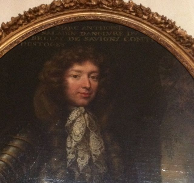 Portrait Marc Anthoine Saladin d'Anglure